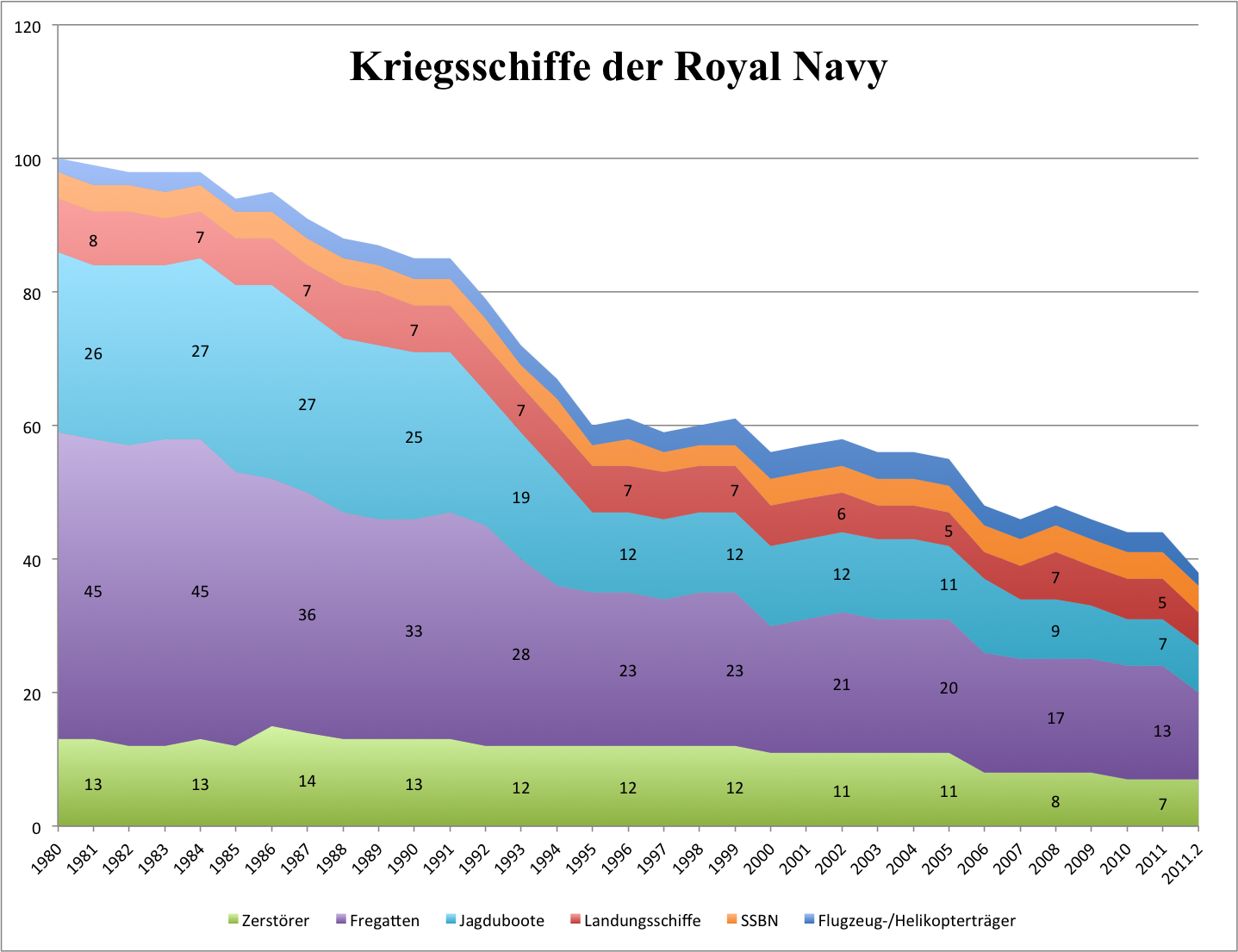 Development of the numbers of different types of Royal Navy warships (including RFA amphibious ships) since 1980. Only active and commissioned units are included; consequently training and reserve vessels are not. The numbers for each year are for January, 1. The graph shows the sharp decline in numbers of frigates, destroyers and submarines as a cause of the end of the Cold War (years 1991 to 1995), the Labour austerity measures (years 2005 to 2007) and finally the Conservative austerity measures (years 2010-).